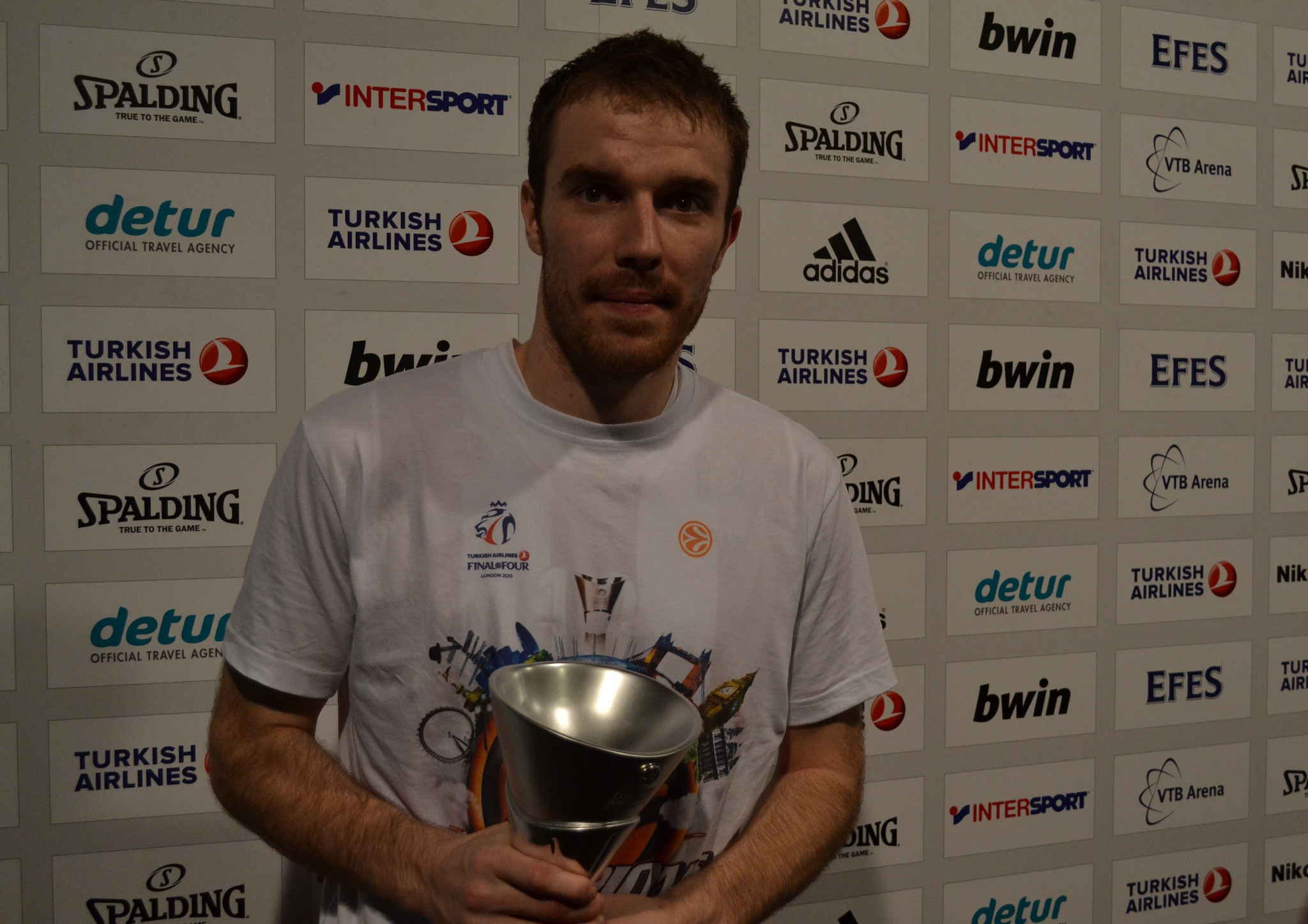 Martynas Gecevicius at the Euroleague Final - Olympiacos VS Real Madrid. O2 Arena, London, May 12th 2013